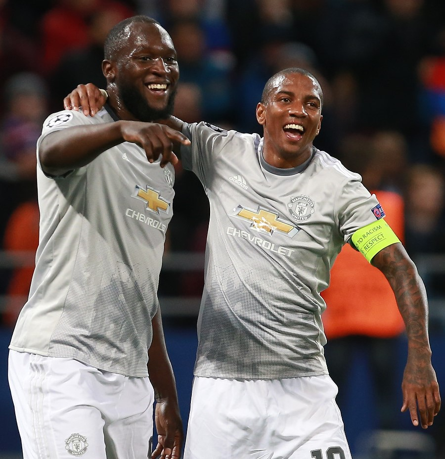 Romelu Lukaku, Ashley Young